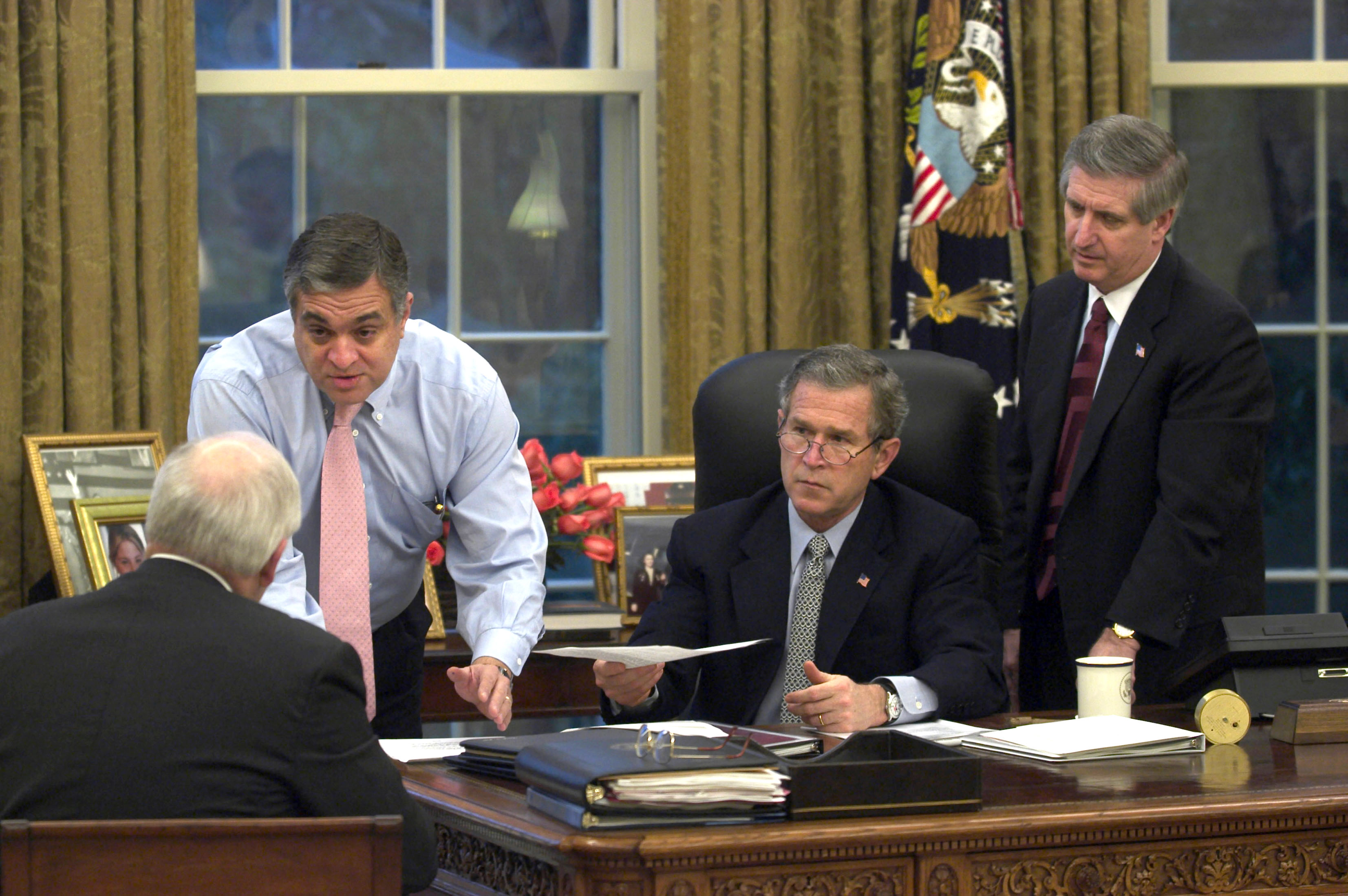 George Tenet (left, in pink tie) gives a briefing to George W. Bush. From official White House site. [1]